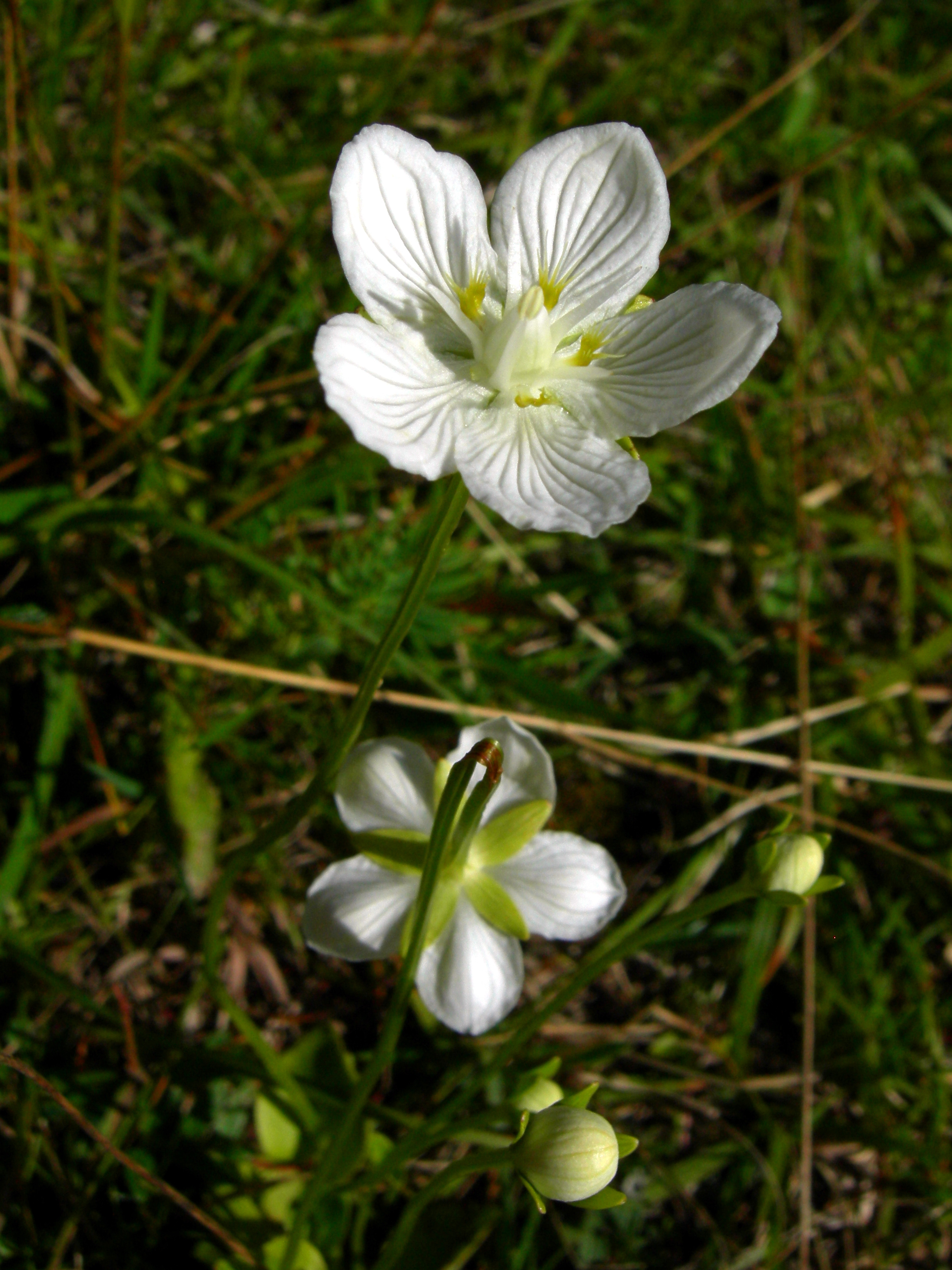 Parnassia palustris - upper valley of Pišnica creek, Slovenia